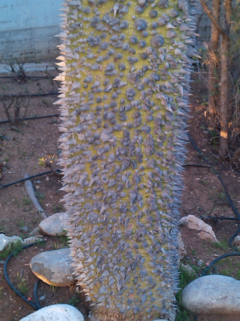 Ceiba speciosa